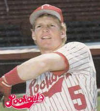 Professional baseball player Keith Lockhart